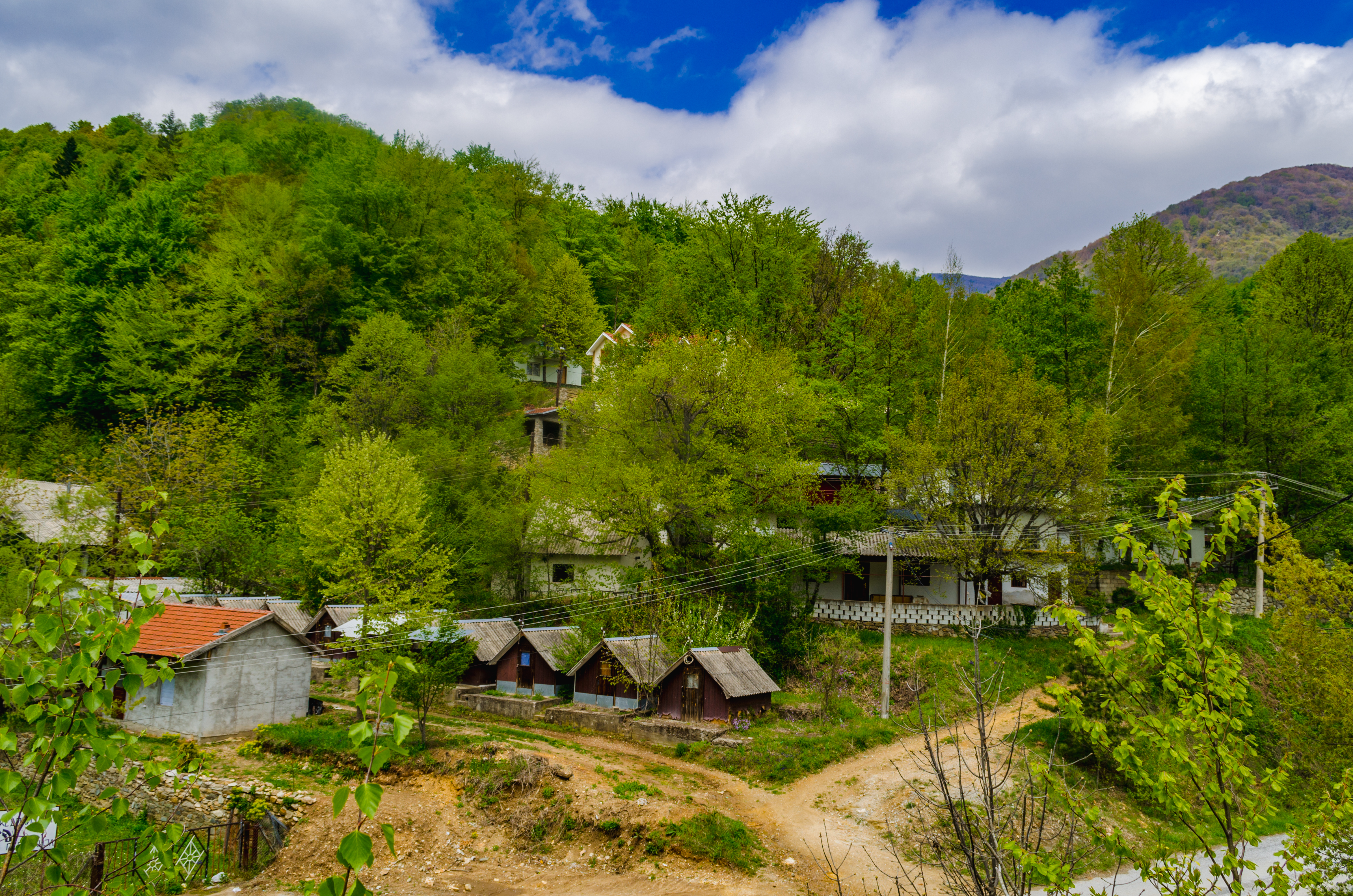 View of Smrdliva Voda, Macedonia